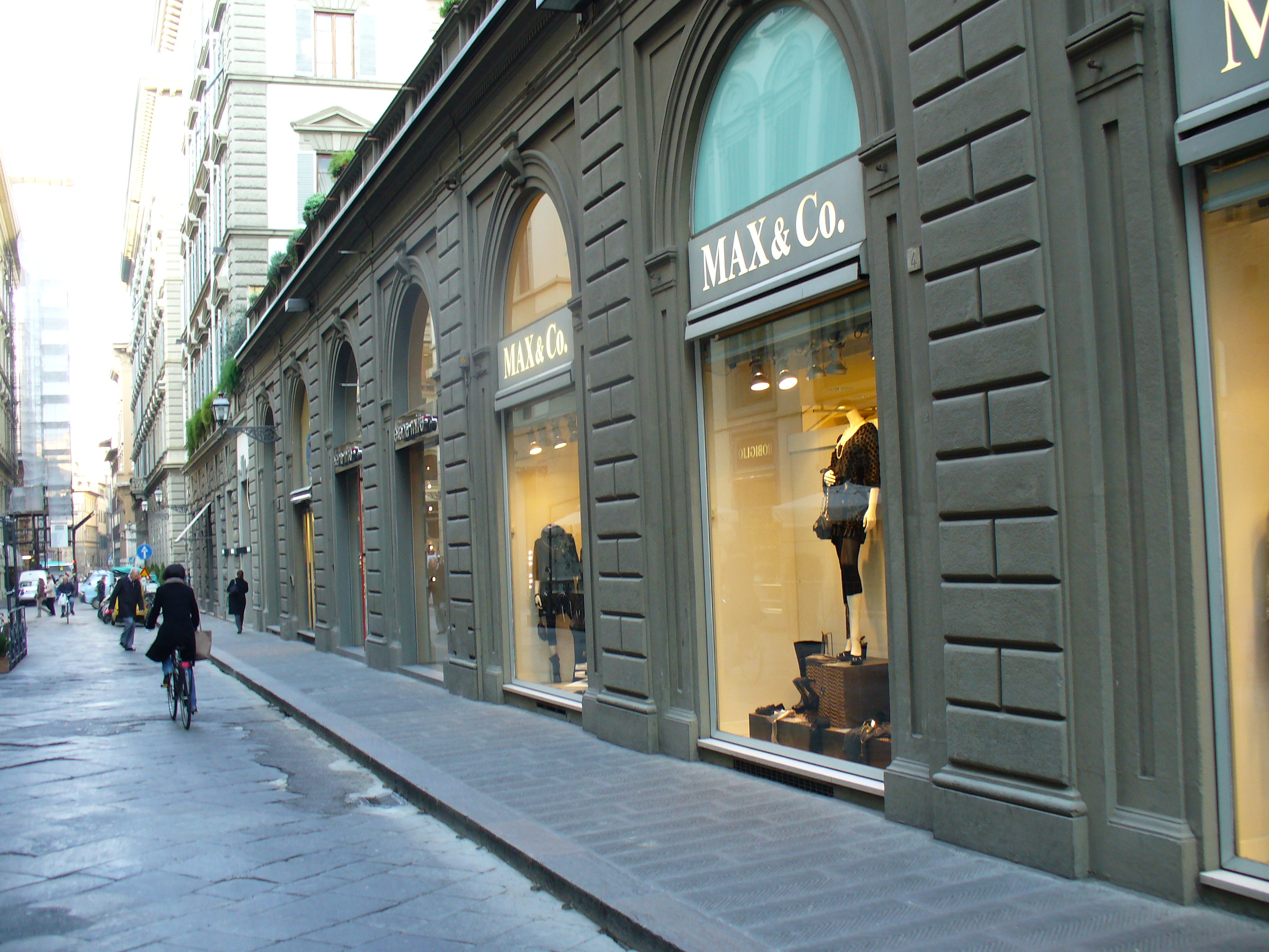 Via de' Tosinghi (Florence)